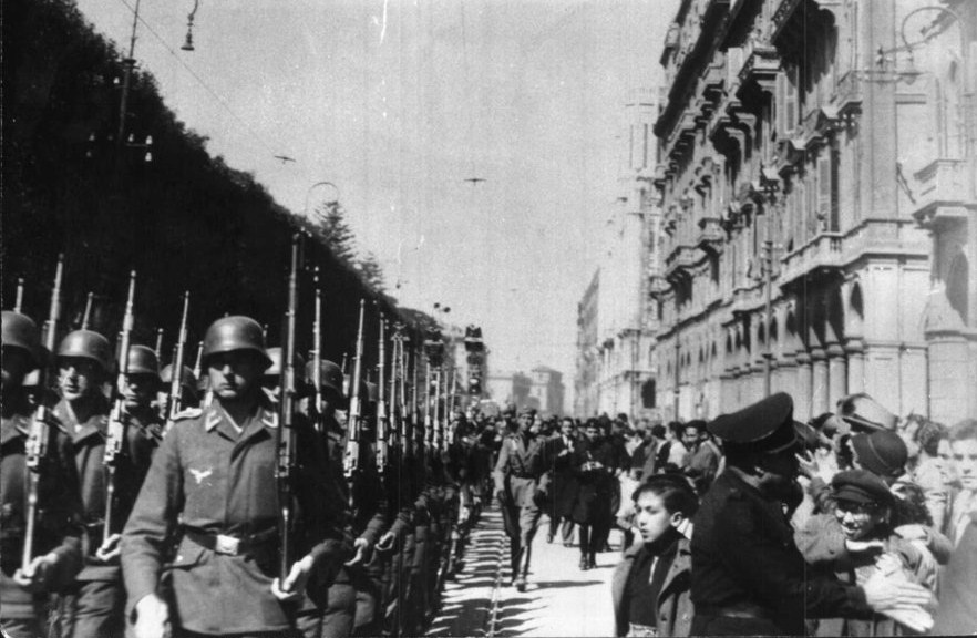 German Army parade in Via Roma, Cagliari, Sardigna